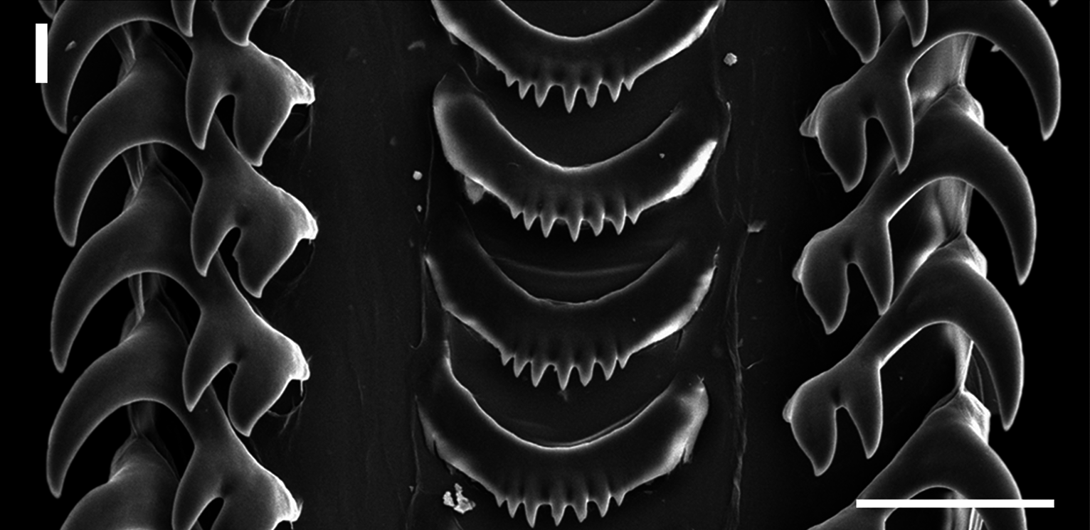 SEM photo of radula of Clea nigricans. Locality: Borneo, MNHN, uncataloged. Scale bar is 100 μm.